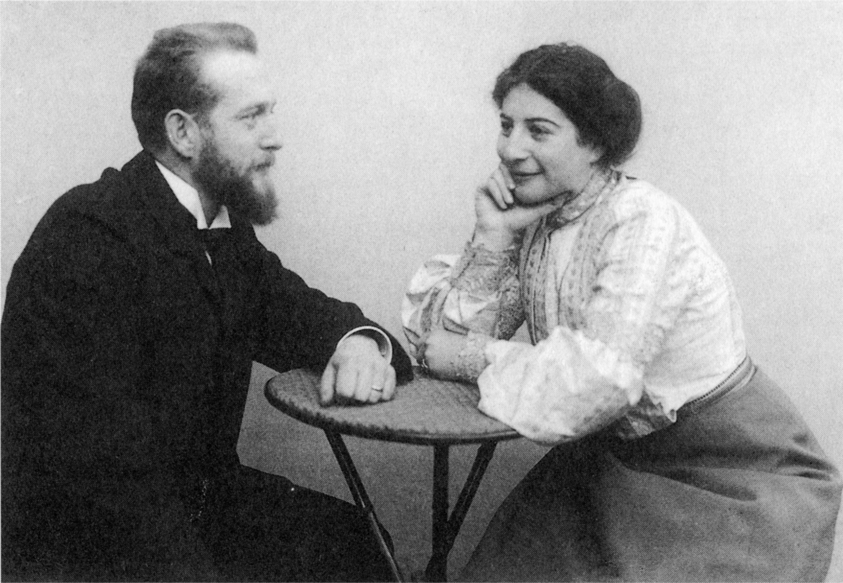 Photograph of Otrto Magnus and his wife Traudl about 1905